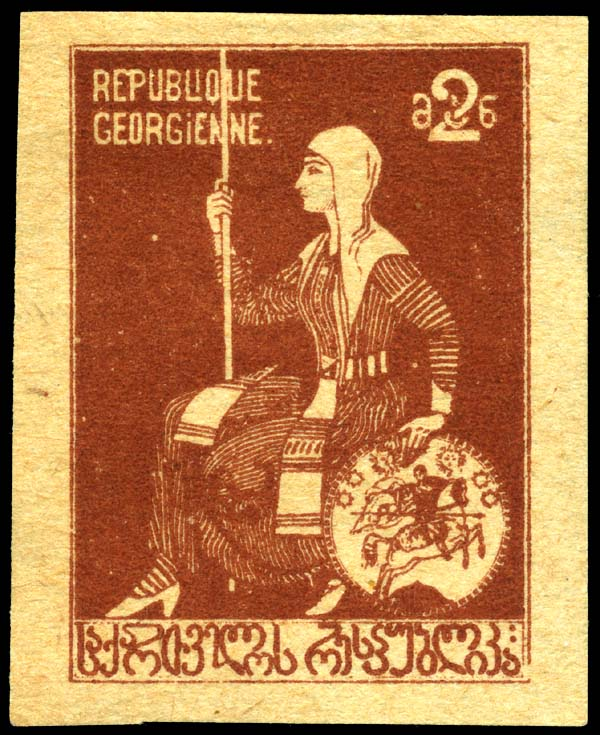 Georgia 2-ruble stamp of 1920, scanned October 2005 by User:Stan Shebs